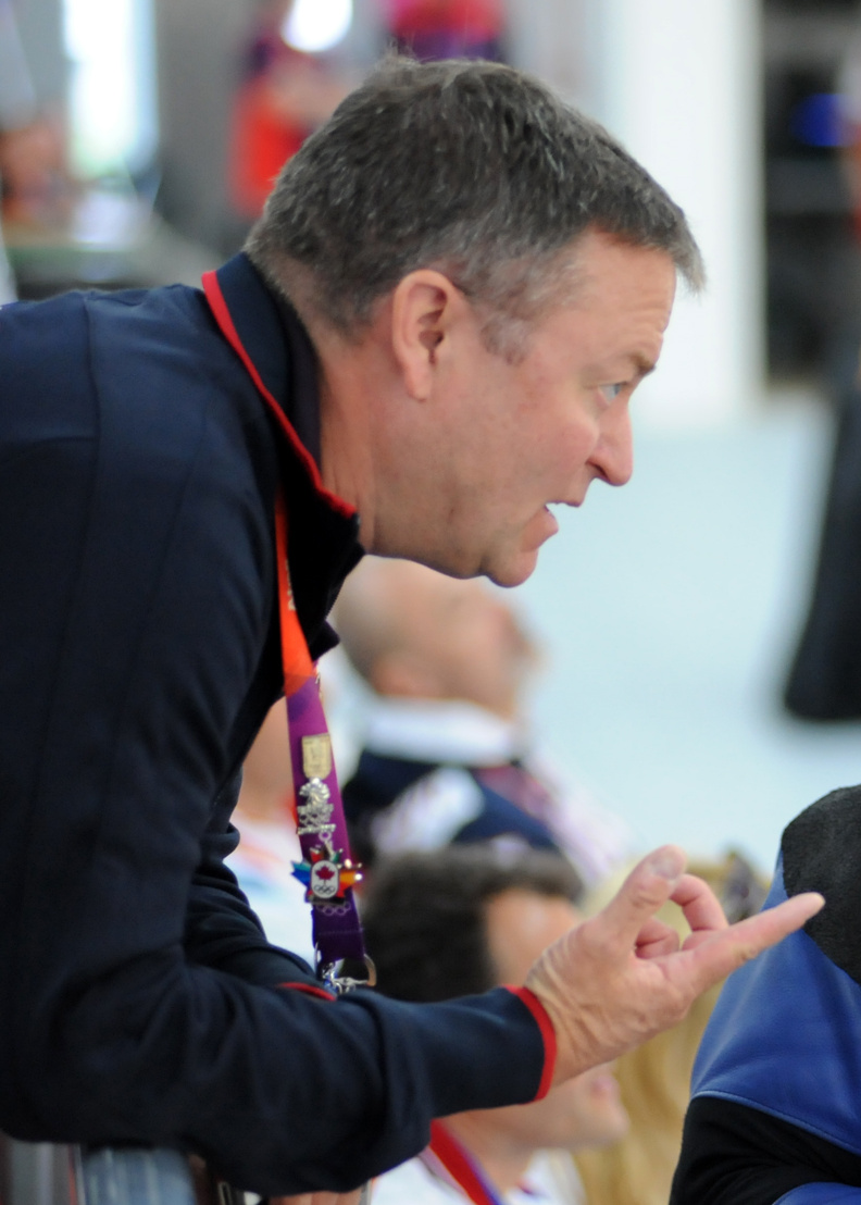 Team USA rifle coach MAJ David Johnson of the U.S. Army World Class Athlete Progam during the Olympic men's 50-meter rifle prone competition Aug. 3 at the Royal Artillery Barracks in London. U.S. Army photo by Tim Hipps, IMCOM Public Affairs